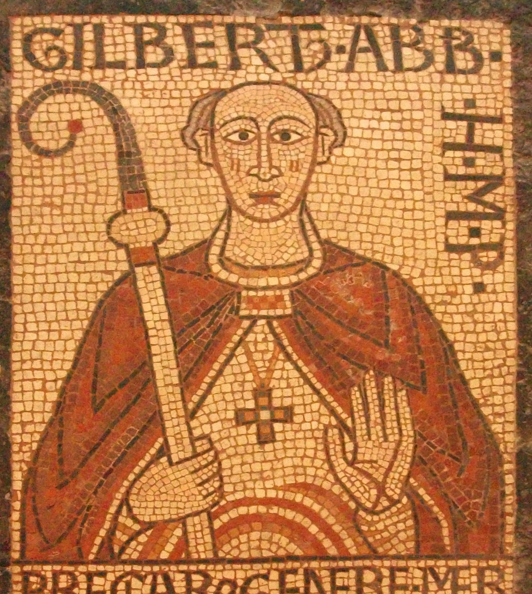 Funeral mosaic of Abbot Gilbert (2nd half of the 12th century). In the museum at Bonn. It was originally in the Maria Laach Abbey